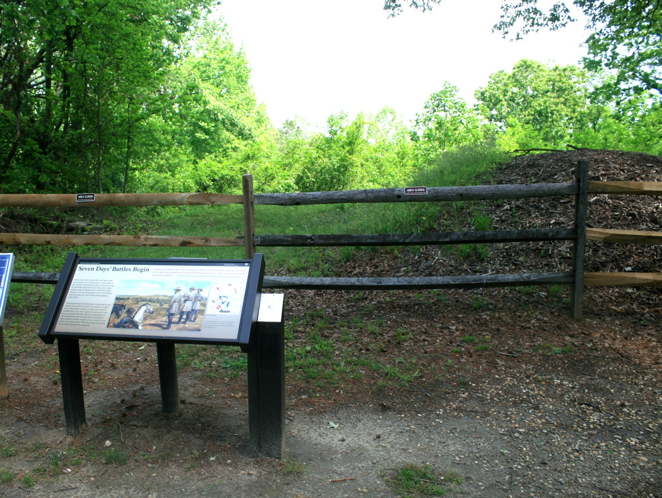 Richardson's redoute, general Lee's headquarters at the battle of Mechanicsville